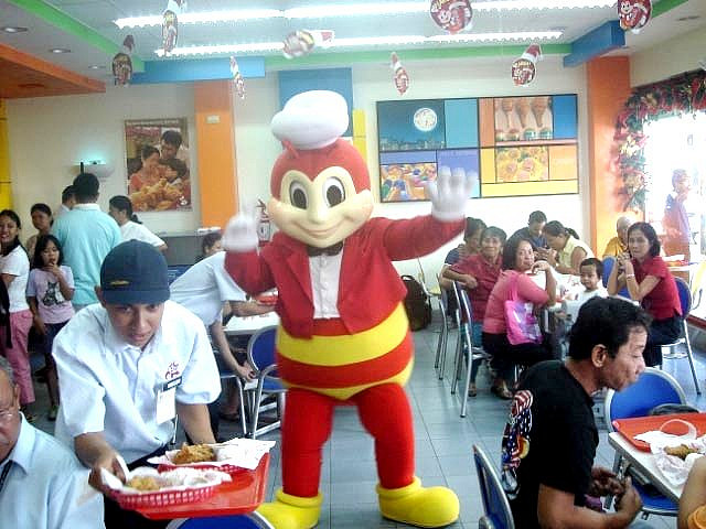 Jollibee Foods Corporation